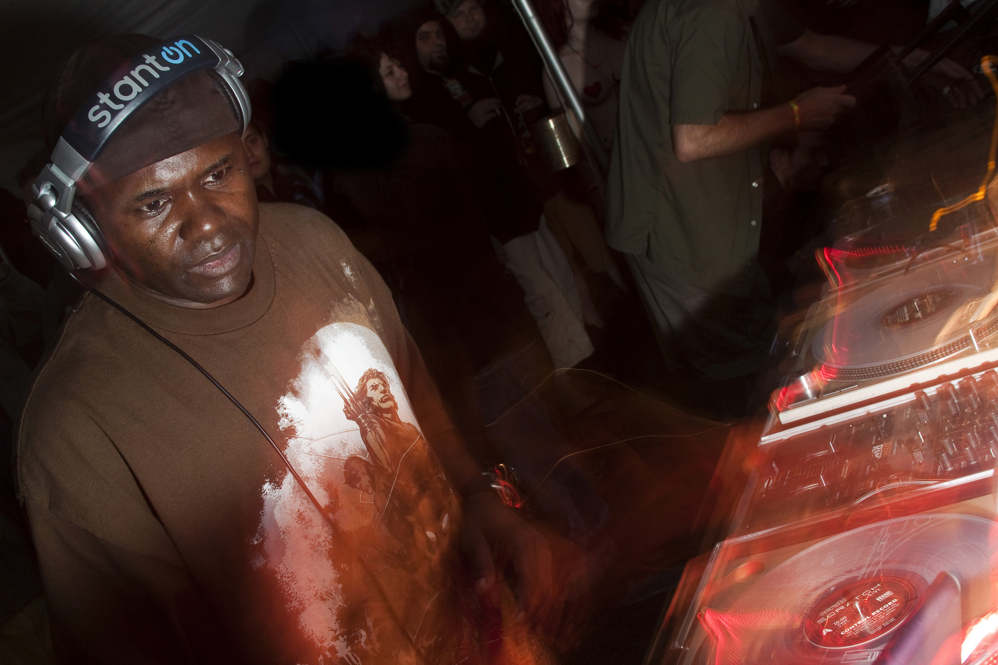 Grand Wizzard Theodore at BelTek Festival in Belmont, Maine, 2009